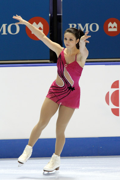 Adriana DeSanctis at the 2011 Canadian Figure Skating Championships